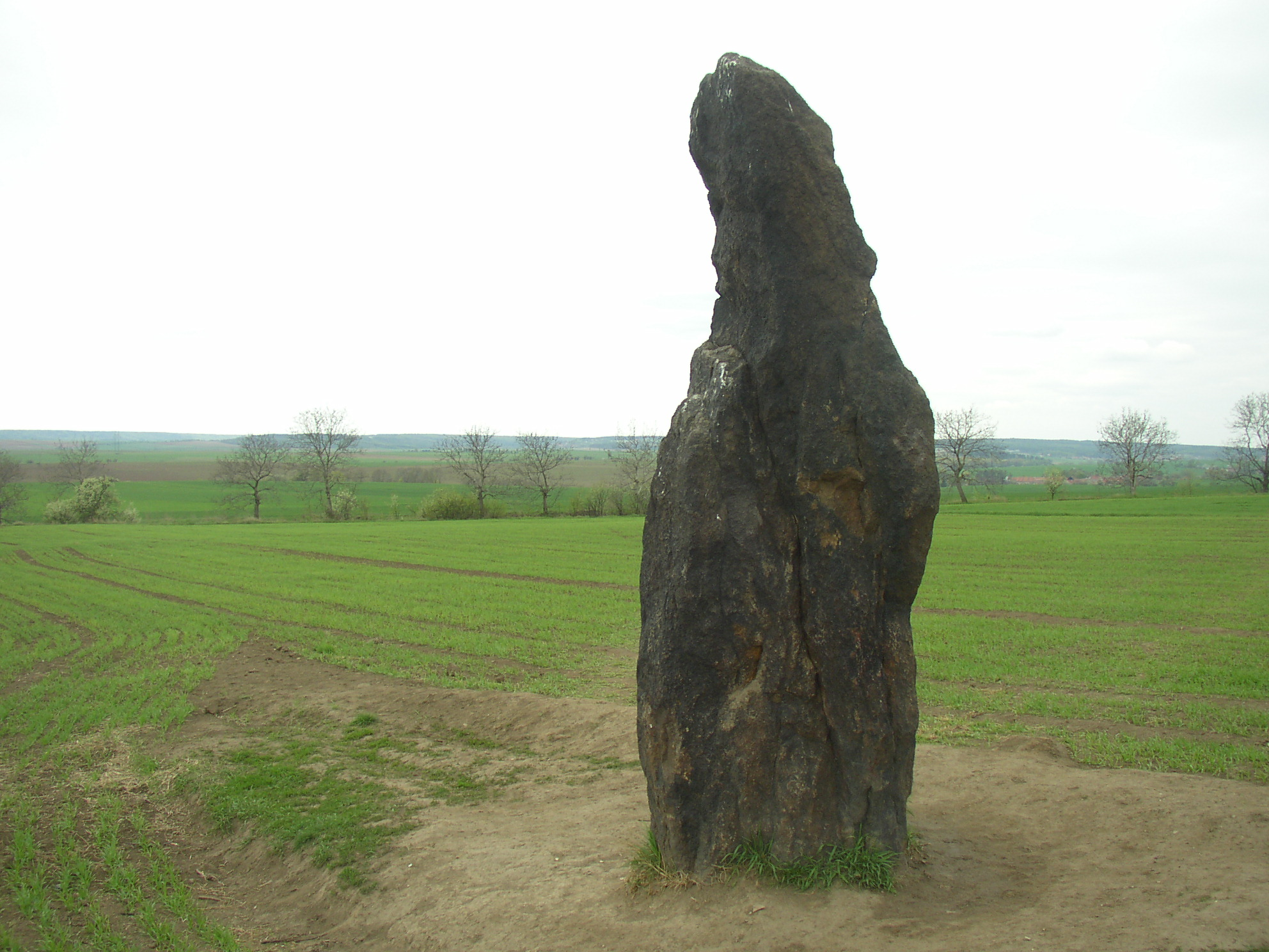 Klobuky, Kladno District, Czech Republic. Zkamenělý pastýř ( Shepherd turned-into-stone), an alleged menhir standing in a field northwest of the village. A view from east.